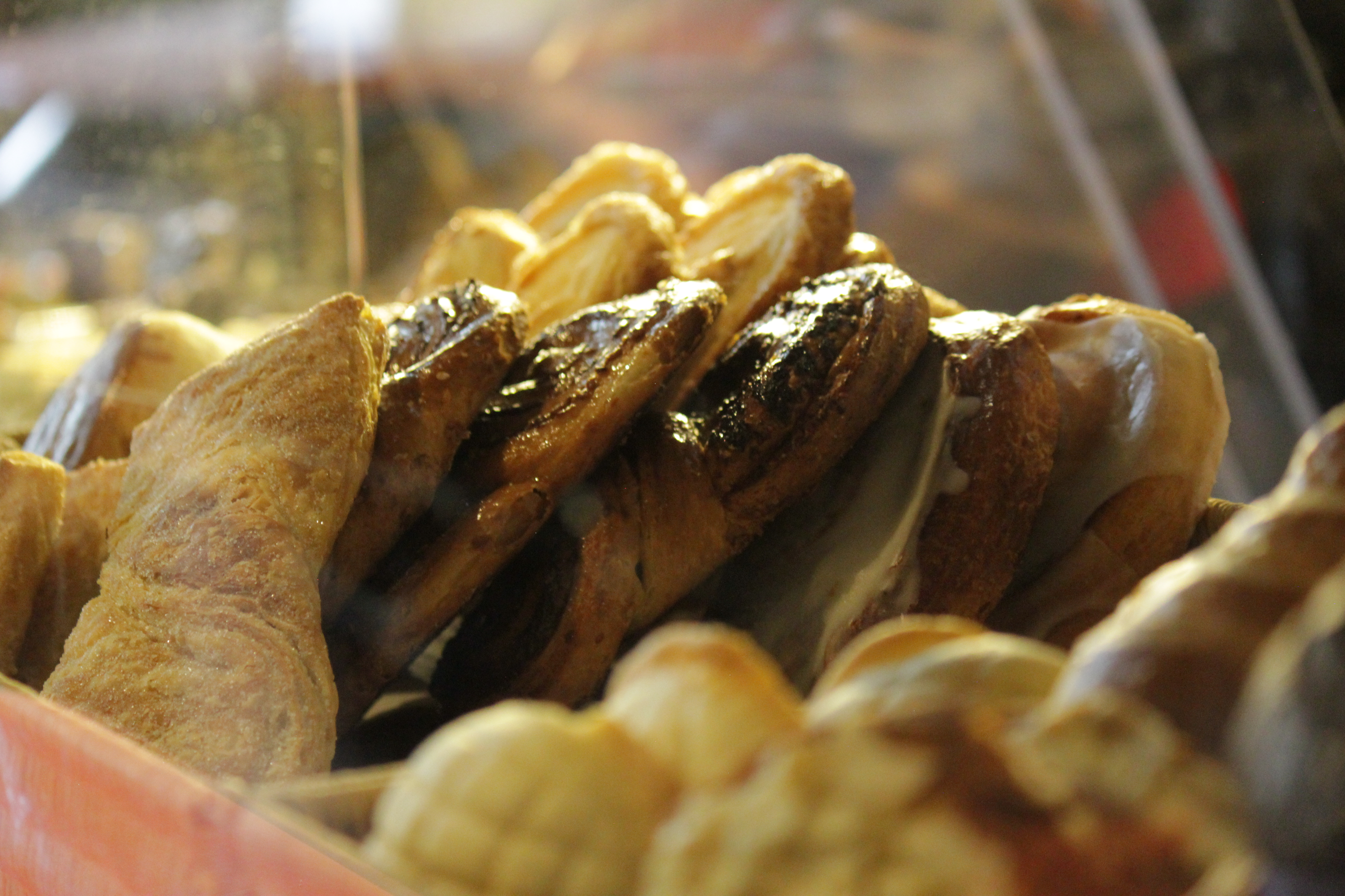 Sweet bread inside showcase in the Roma market located in Col. Roma in Mexico City.